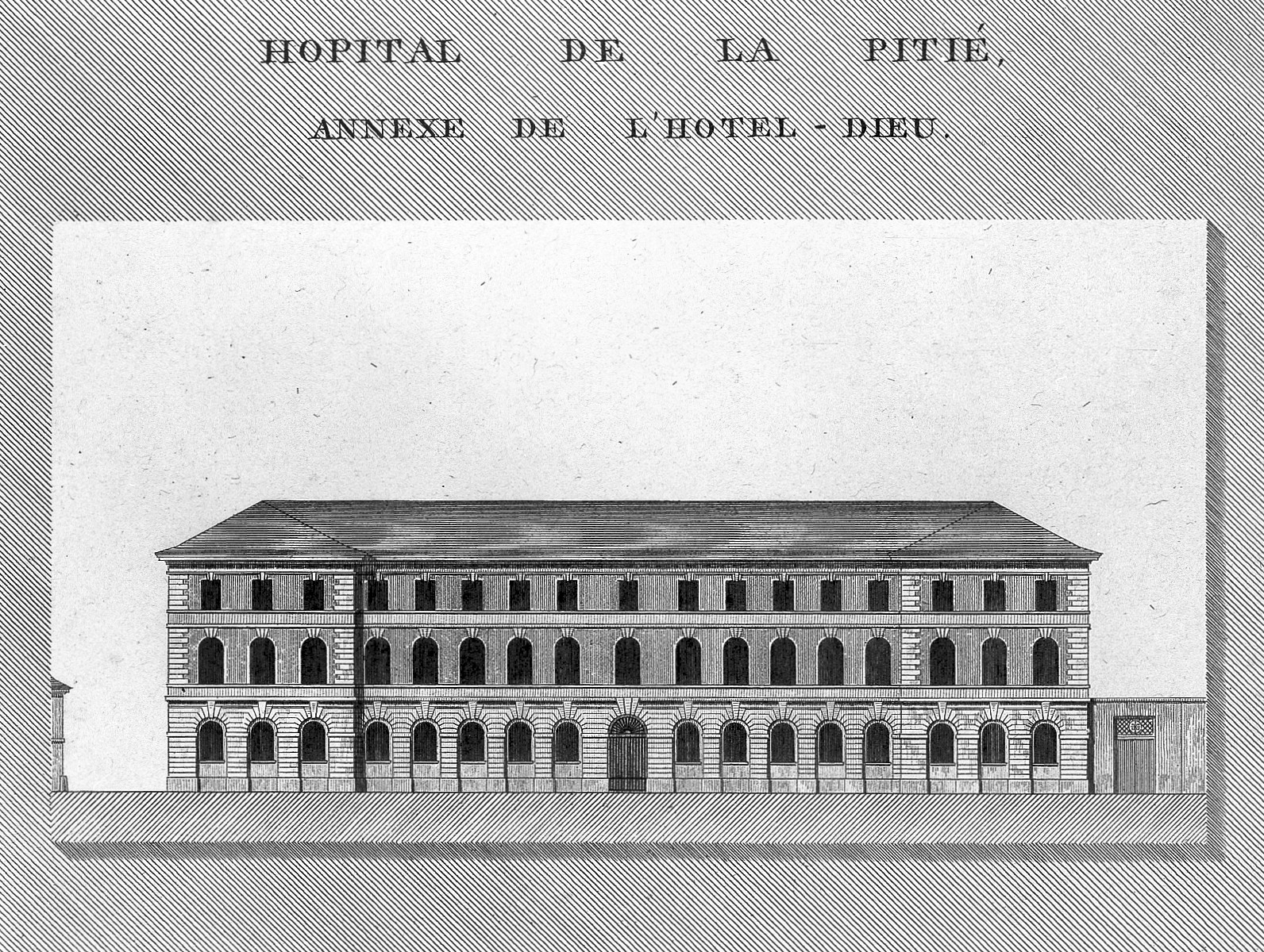 Hôpital de la Pitié, Paris: facade and floor plan. Line engraving by J.E. Thierry after H. Bassat, 1812. Wellcome Images Keywords: H. Bessat; Jacques Etienne Thierry